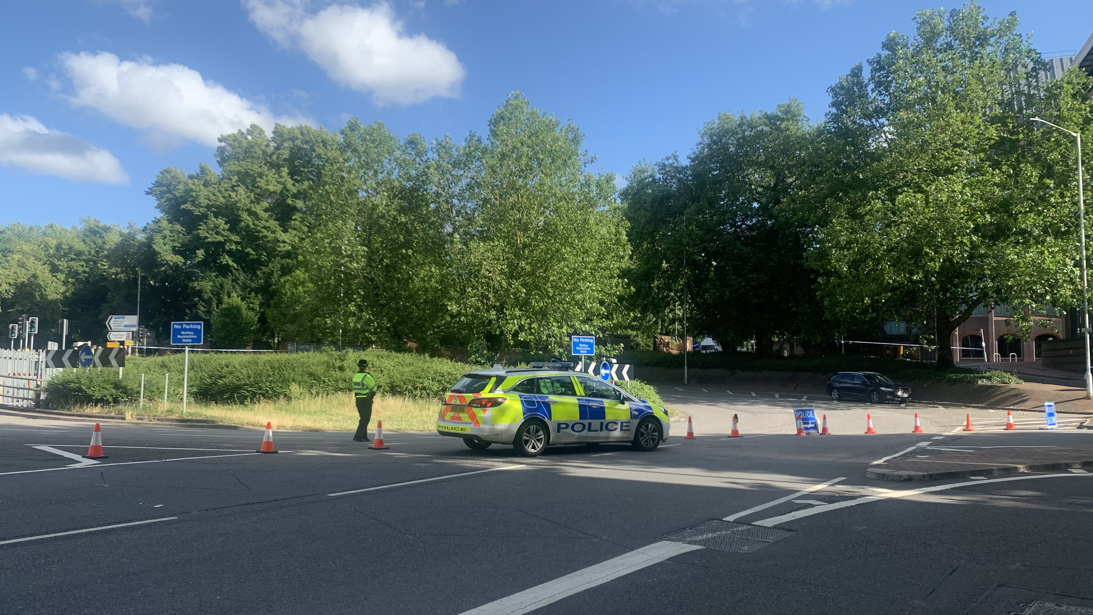 A329 Forbury Road roundabout sealed off by Thames Valley Police with Forbury Gardens behind